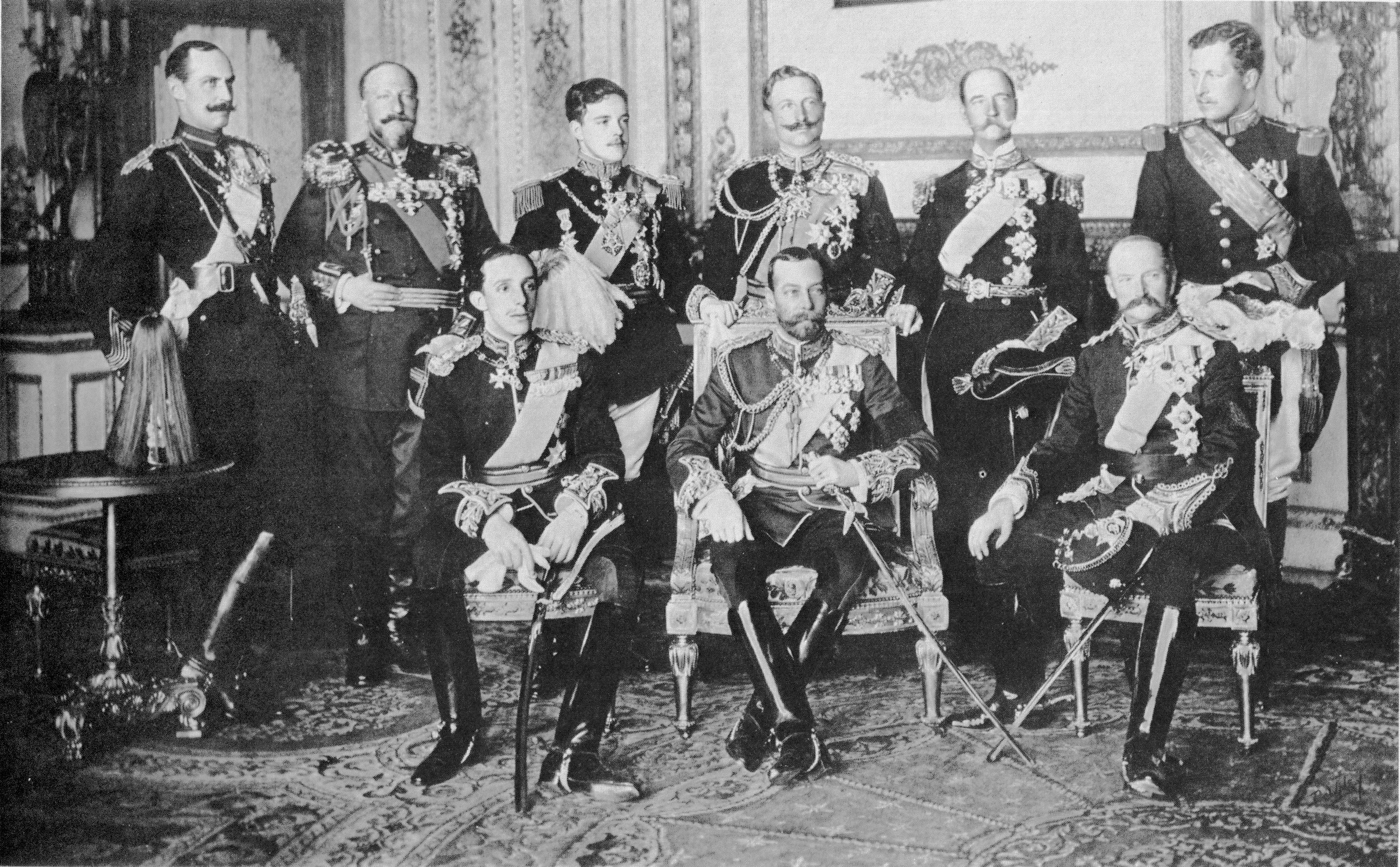 The Nine Sovereigns at Windsor for the funeral of King Edward VII. Standing, from left to right: King Haakon VII of Norway, King Ferdinand of Bulgaria, King Manuel of Portugal, Kaiser Wilhelm II of the German Empire, King George I of The Hellenes (Greece) and King Albert I of the Belgians (Belgium). Seated, from left to right: King Alfonso XIII of Spain, King-Emperor George V of the Great Britain and King Frederick VIII of Denmark.